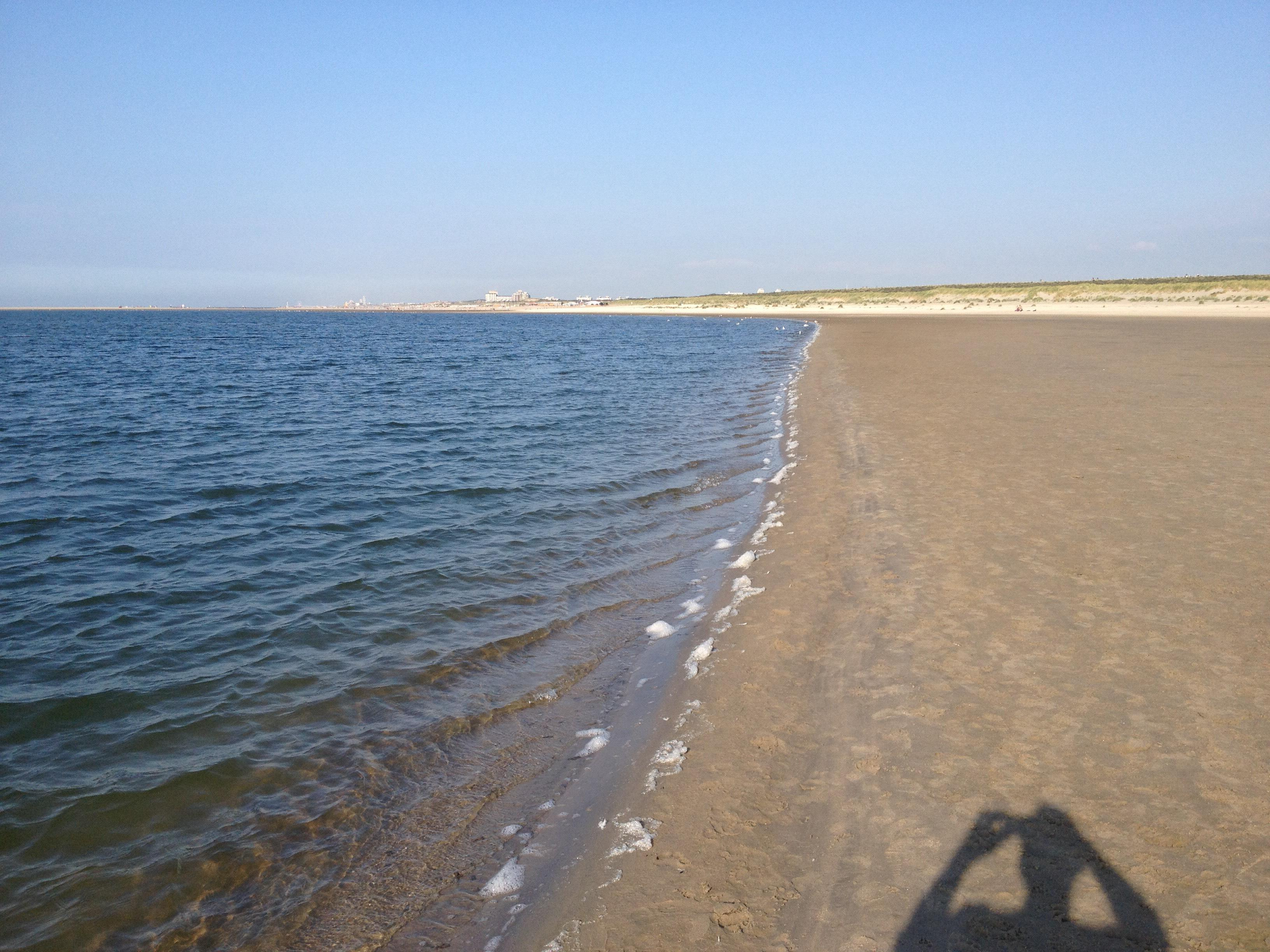 De Zandmotor (Sand Engine), Area Rotterdam-Den Haag, Netherlands